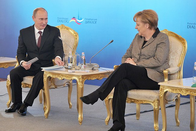 With Federal Chancellor of Germany Angela Merkel. (The Kremlin, Moscow)